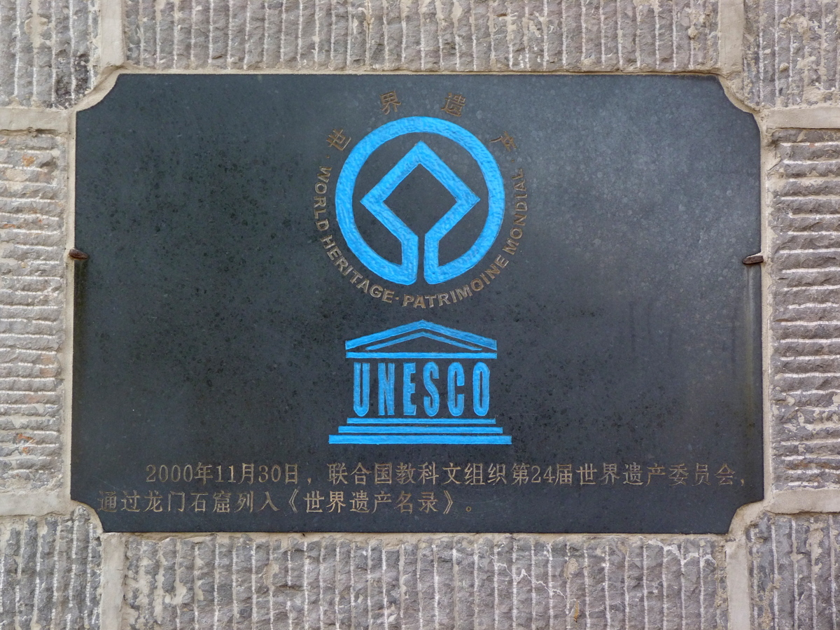 UNESCO World Heritage site Longmen Grottoes